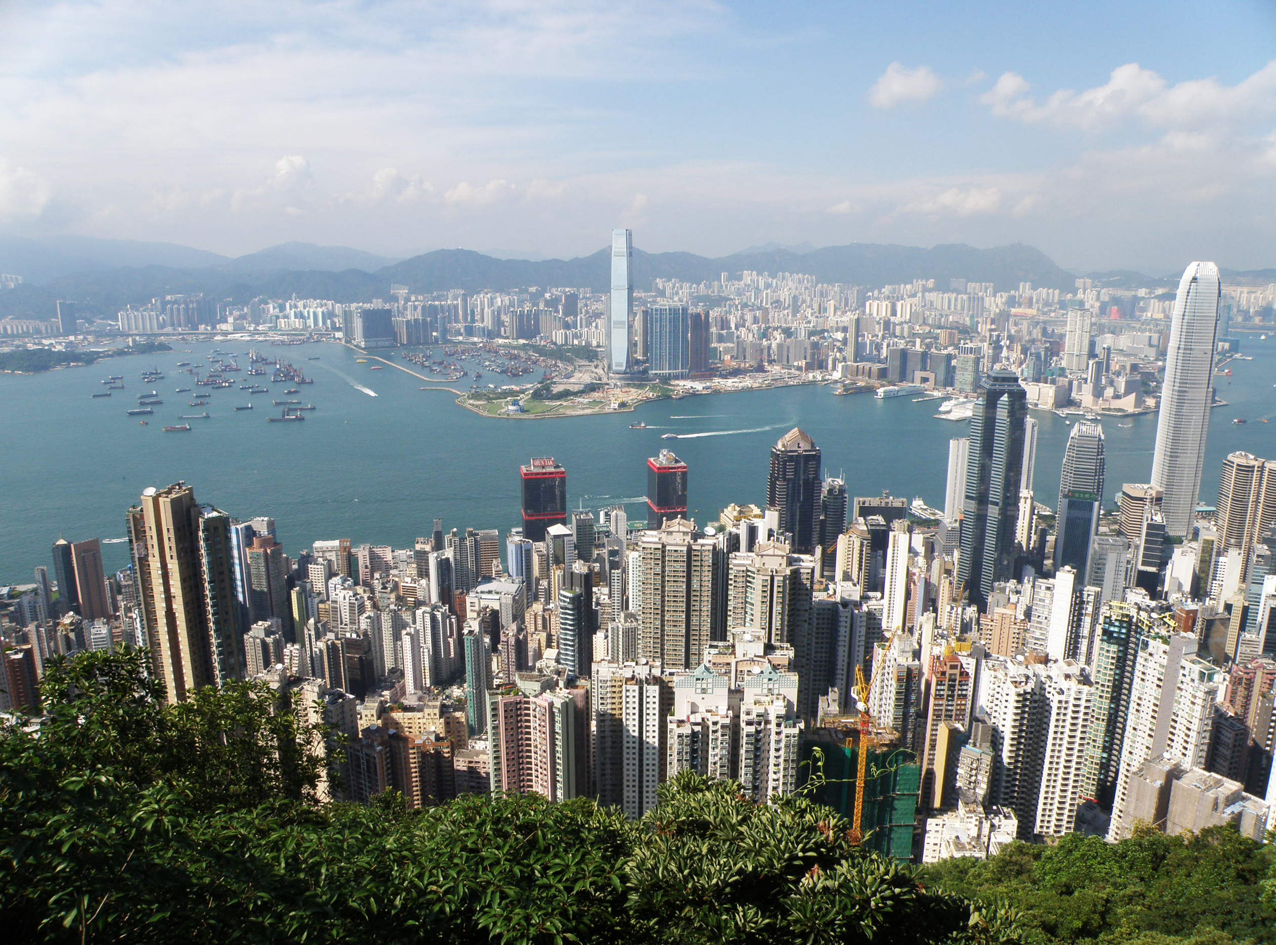 Sheung Wan in Hong Kong.